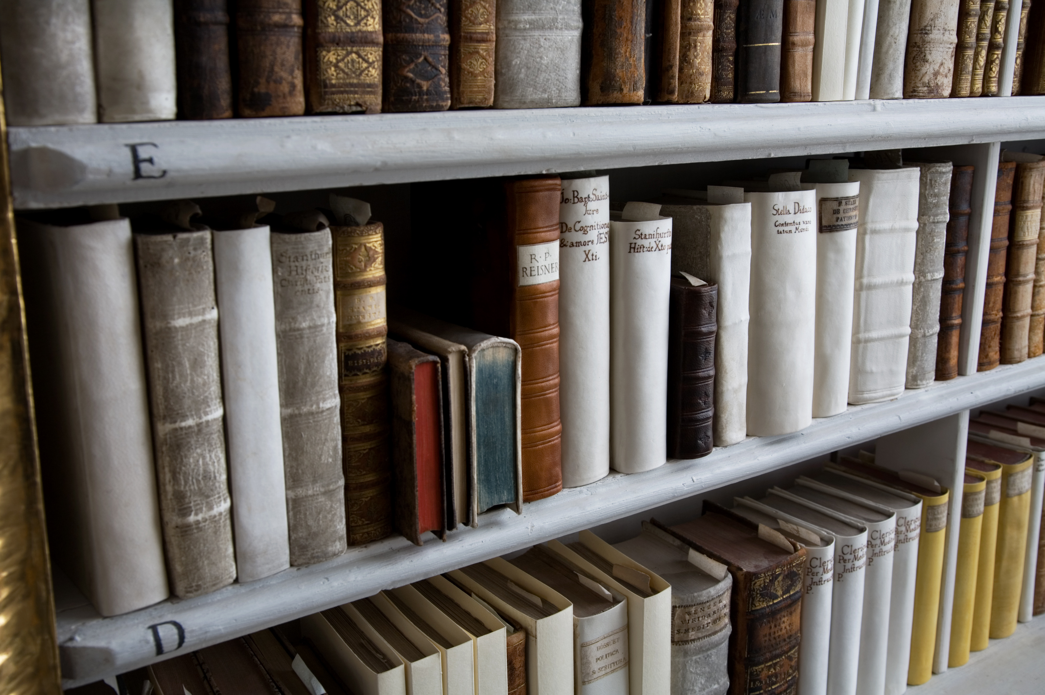 Books and bookshelves. Admont Abbey Library, Austria